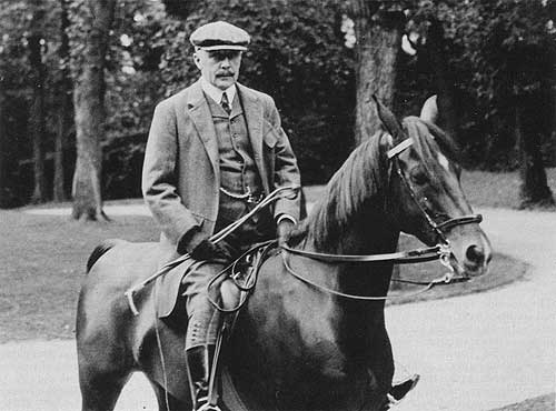 Augustus Meredith Nanton (1860-1925) of Kilmorie, Winnipeg